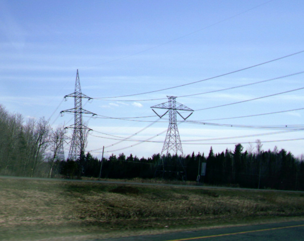 Hydro Quebec ±450 kV HVDC line 4007(+) / 4008(-) (at right, with a tower with 230 kV AC circuits 2381-2382 at left), on the south side of Route 20, east of the Nicolet terminal.